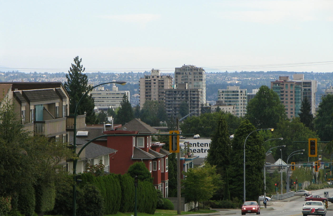 This image was created by me, Flying Penguin of Pacific Spirit Photography of Burnaby, BC, Canada